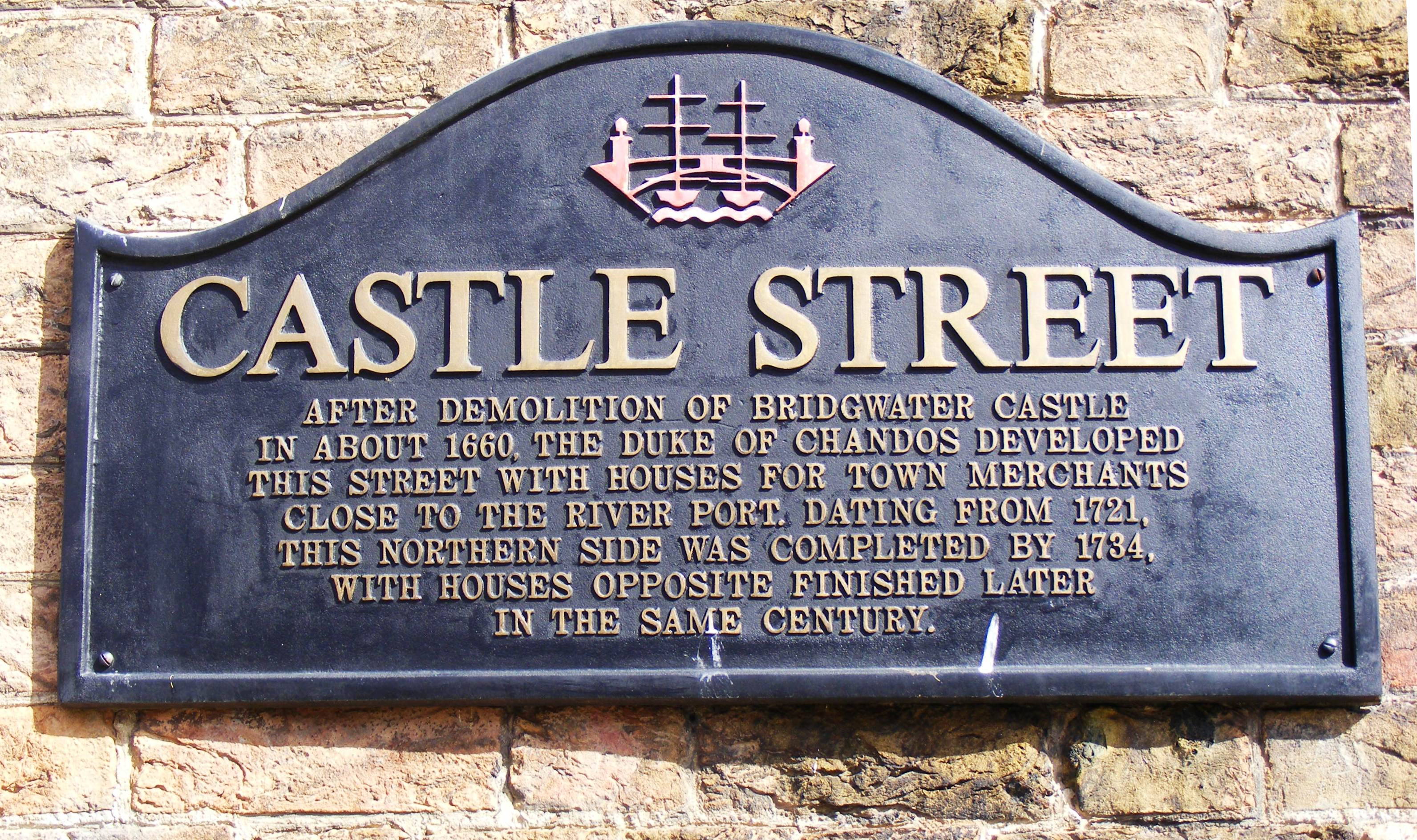 Castle Street, Bridgwater sign